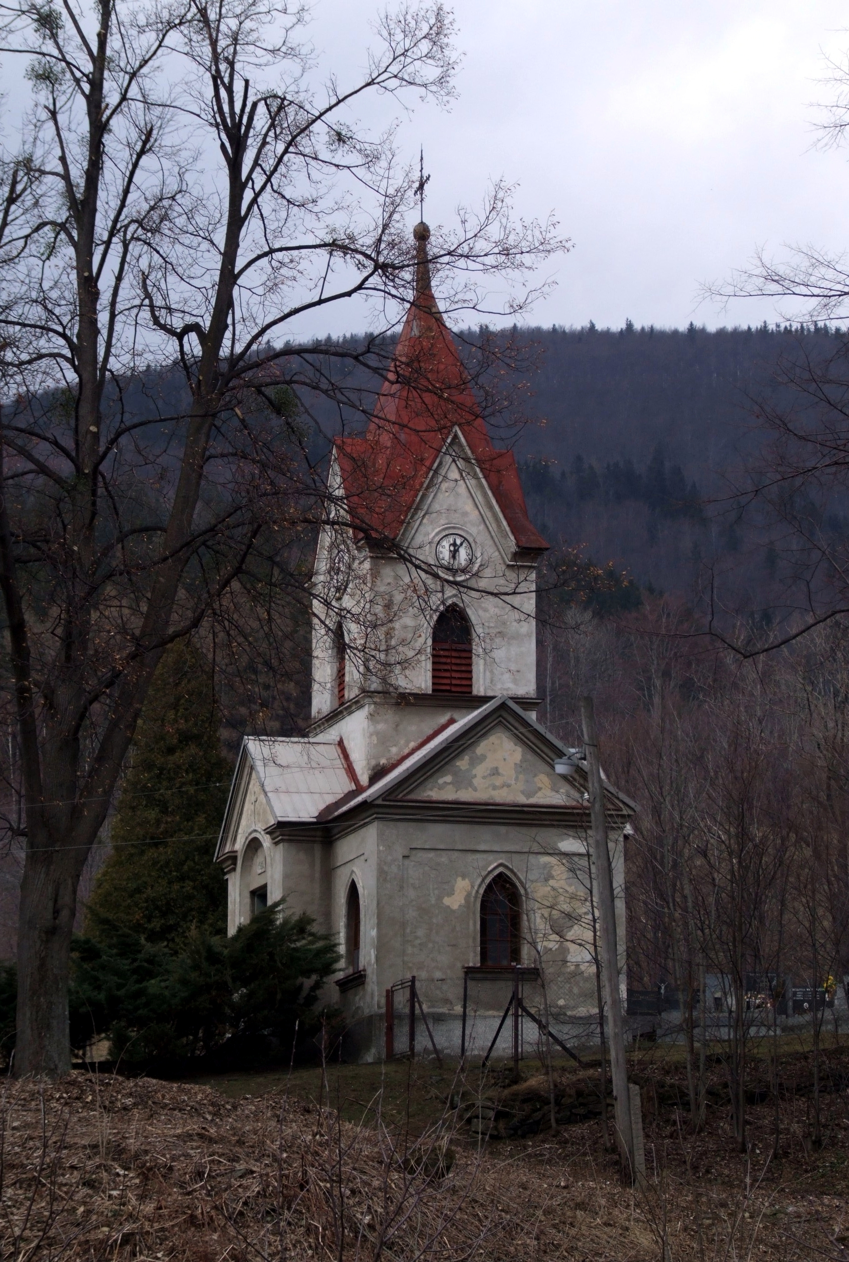 Church in Tyra, Třinec, in Moravian-Silesian Region, Czech Republic